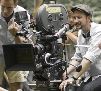 Todd Field shooting his film, "Little Children" Todd Field lining up shot for his film Little Children